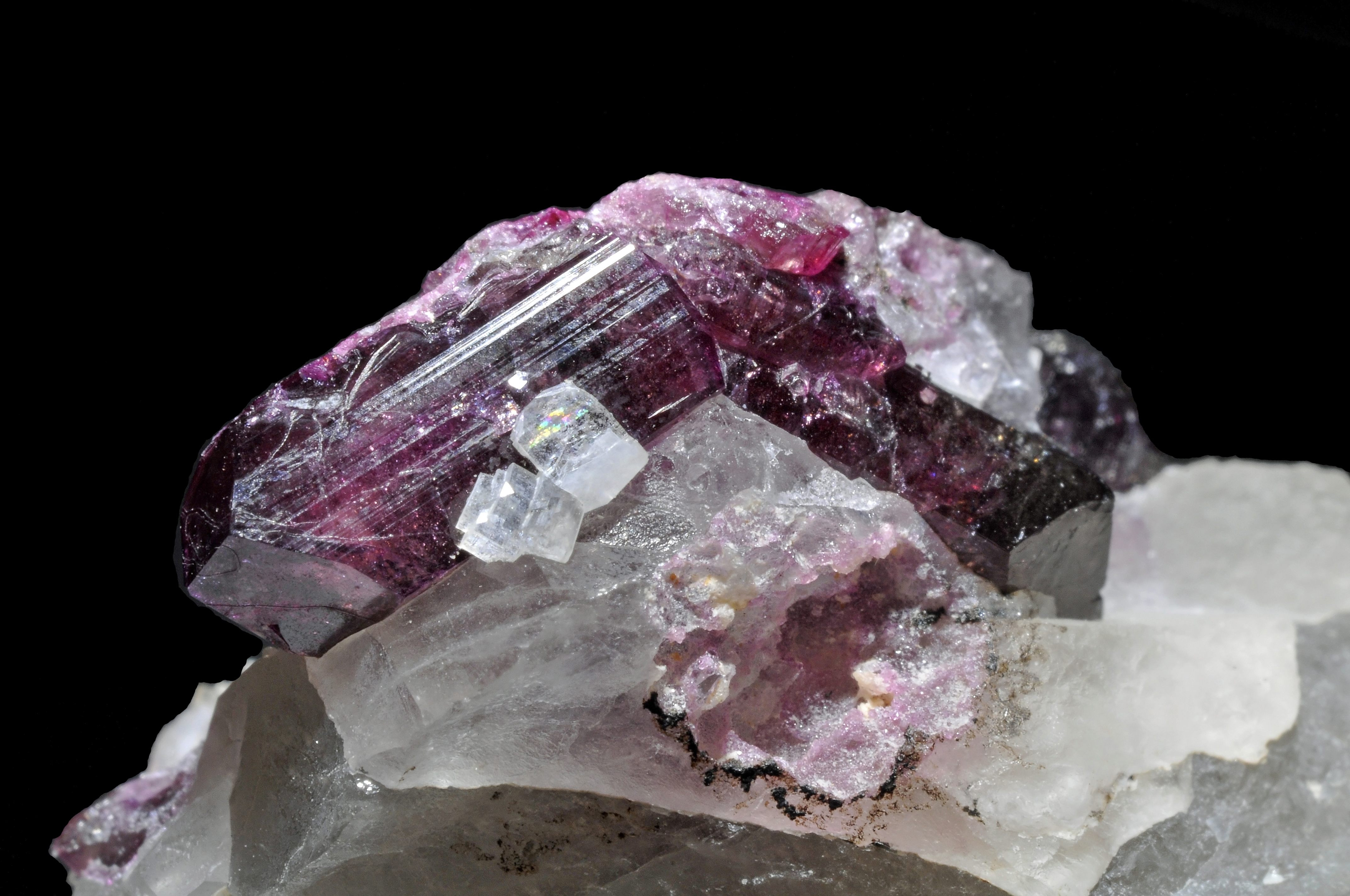 crystals of tourmaline var. liddicoatite, crystals of quartz, crystals of feldspar : Anjanabonoina pegmatites, Ambohimanambola Commune, Betafo District, Vakinankaratra Region, Antananarivo Province, Madagascar